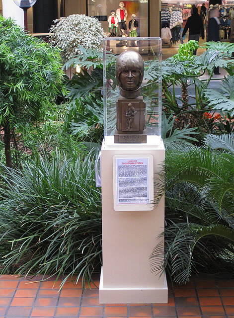 Brian Jones, born in Cheltenham Lewis Brian Hopkin Jones, founder of the Rolling Stones was born in Cheltenham in 1942. He is buried in Cheltenham cemetery, near Prestbury. The 'Golden Boy' bust is by Maurice Juggins.